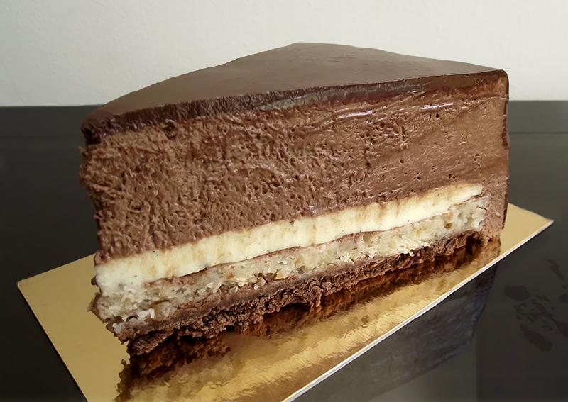 chocolate-hazelnut mousse cake